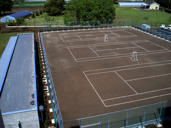 Tennis courts of the Chiba Prefectural Inba Meisei High School